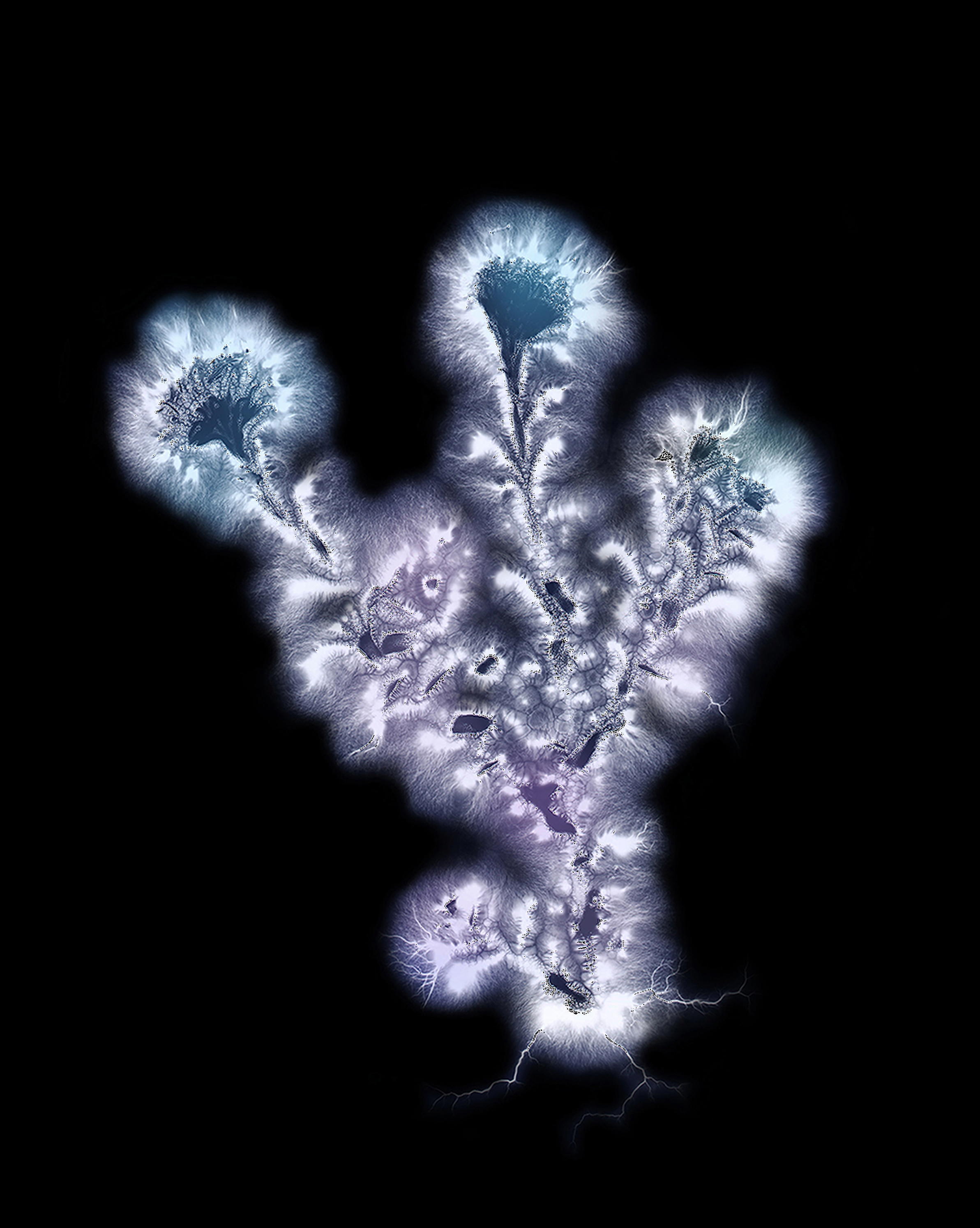 Mark D Roberts, Kirlian Photograph of Aster